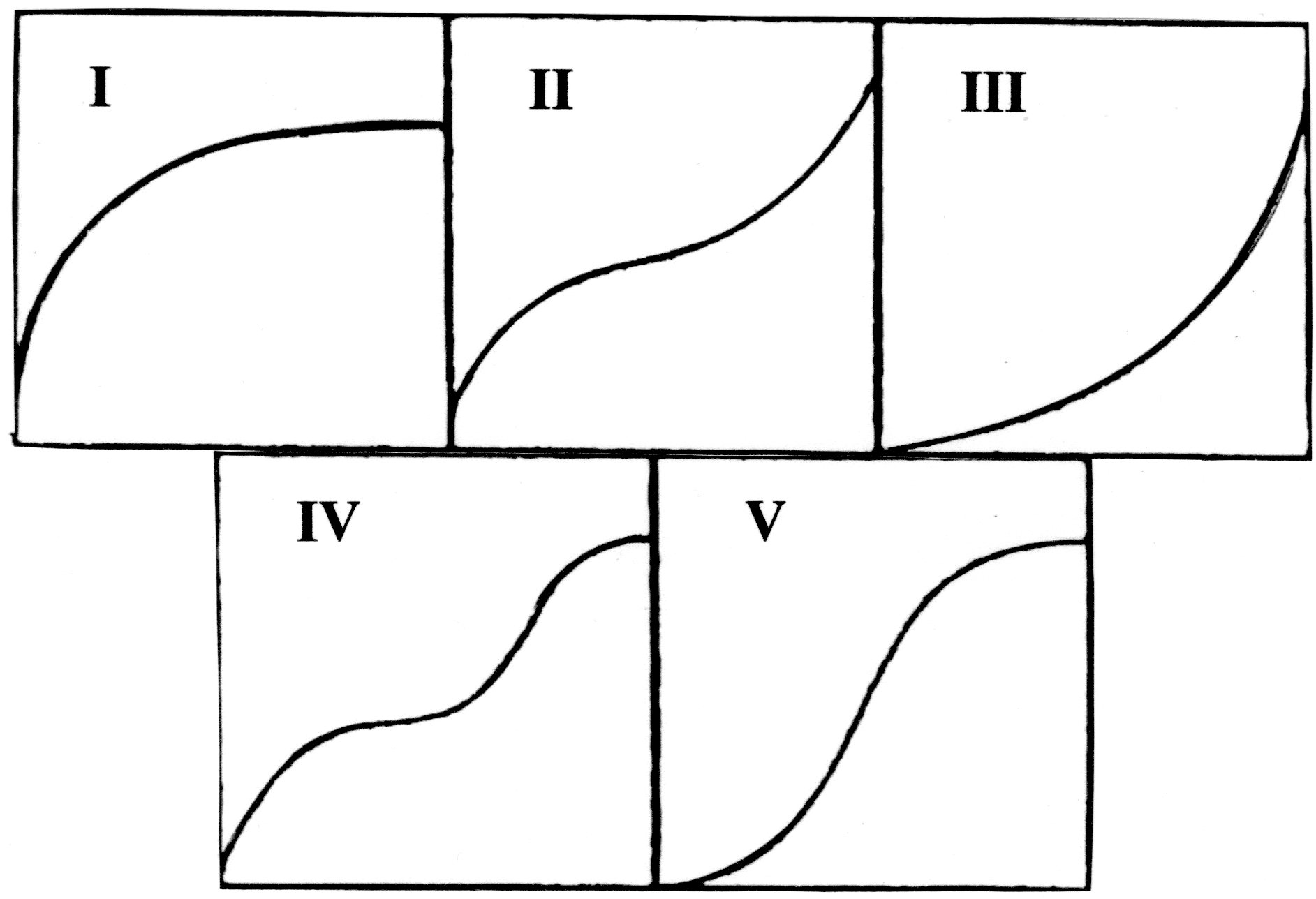 Shape of moisture isotherm types. Generally % adsorbed or absorbed by weight on y (vertical) axis and Relative Humidity on x (horizontal) axis. Sorption normally falls into one of these five shapes, represented by Type.